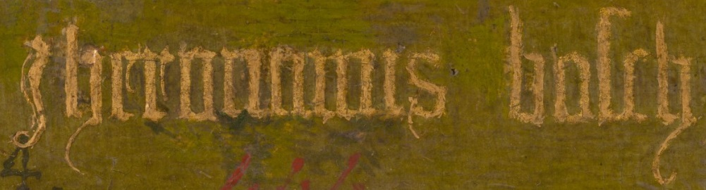 Autograph.